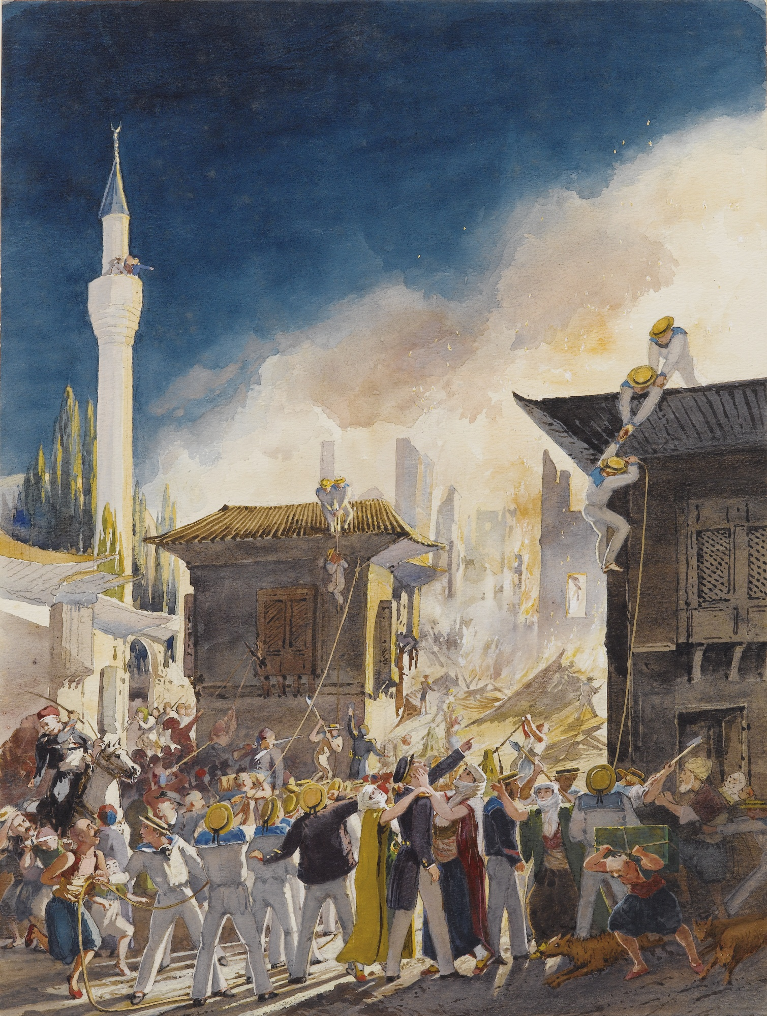 Watercolor by François d'Orléans, prince de Joinville (1818-1900) - Incendie de Pera à Constantinople